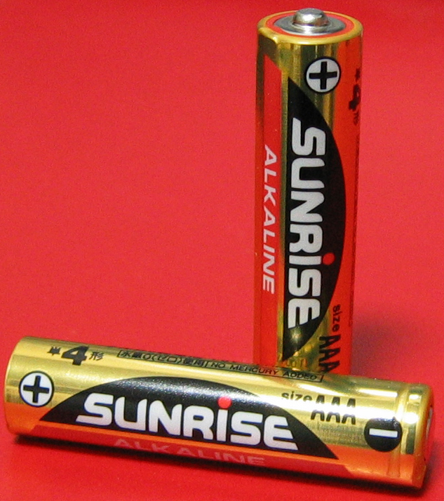 Alkaline Manganese Battery (ASAHI BATTERY CO.,LTD.)